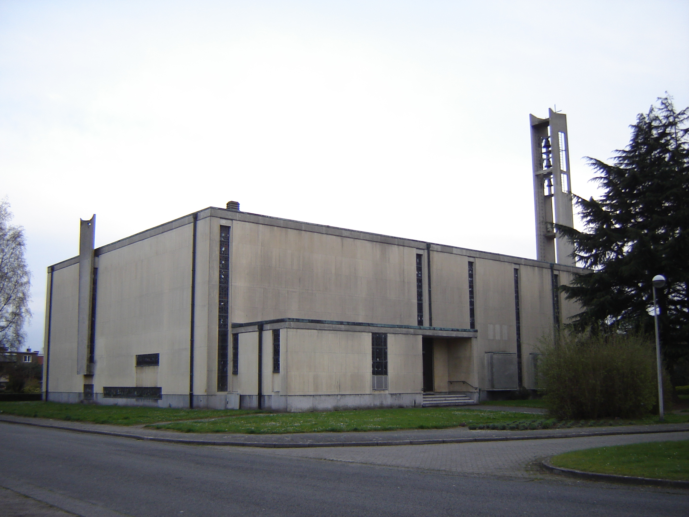 Church of the Holy Cross in the Westveld quarter in Sint-Amandsberg. Sint-Amandsberg, Gent, East Flanders, Belgium